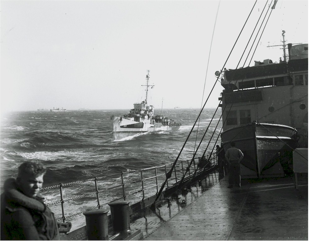 Undated, coming alongside USS Denebola (AD-12).